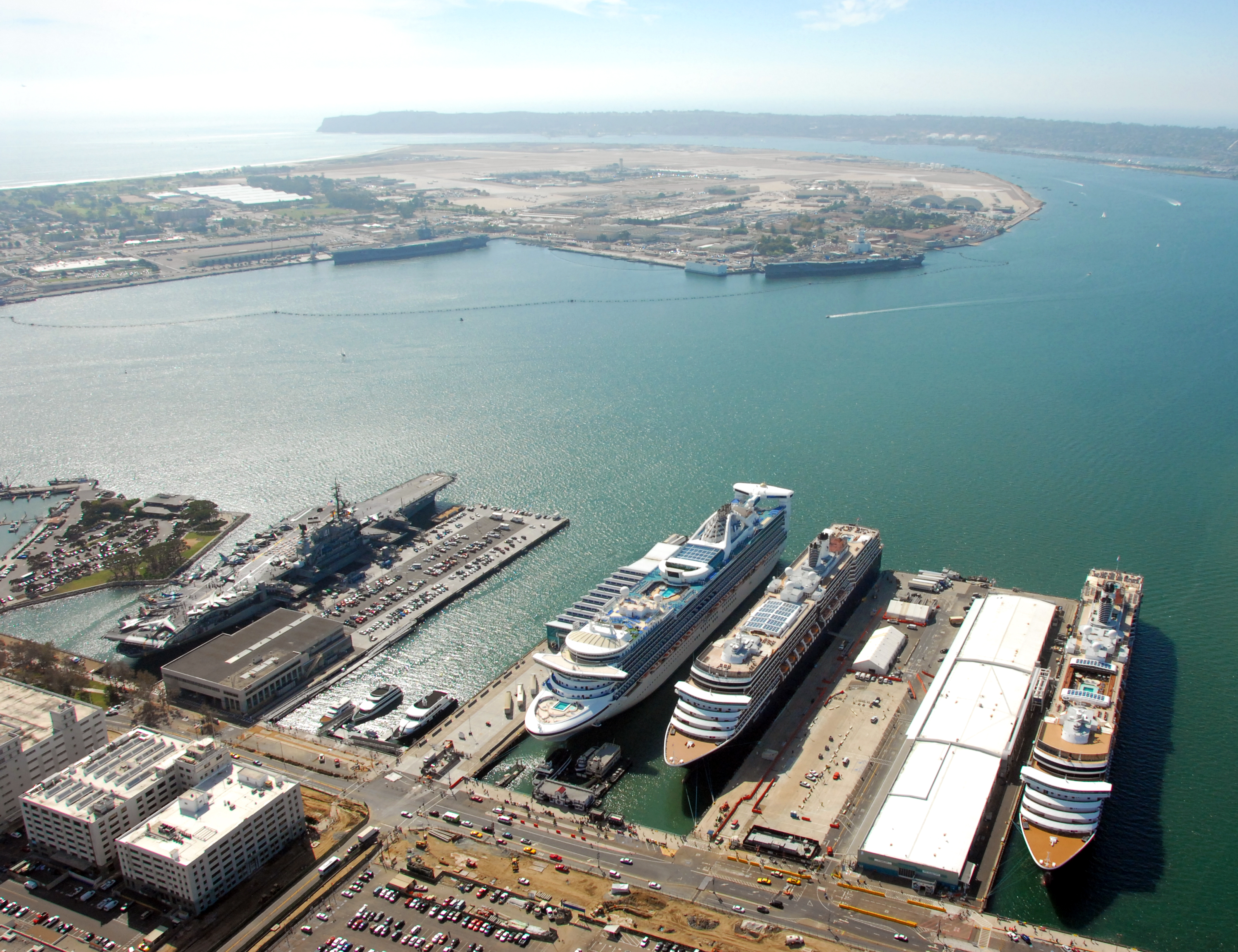 Aerial view of the Port of San Diego with three cruise ships in Port, from Oct. 4, 2012.